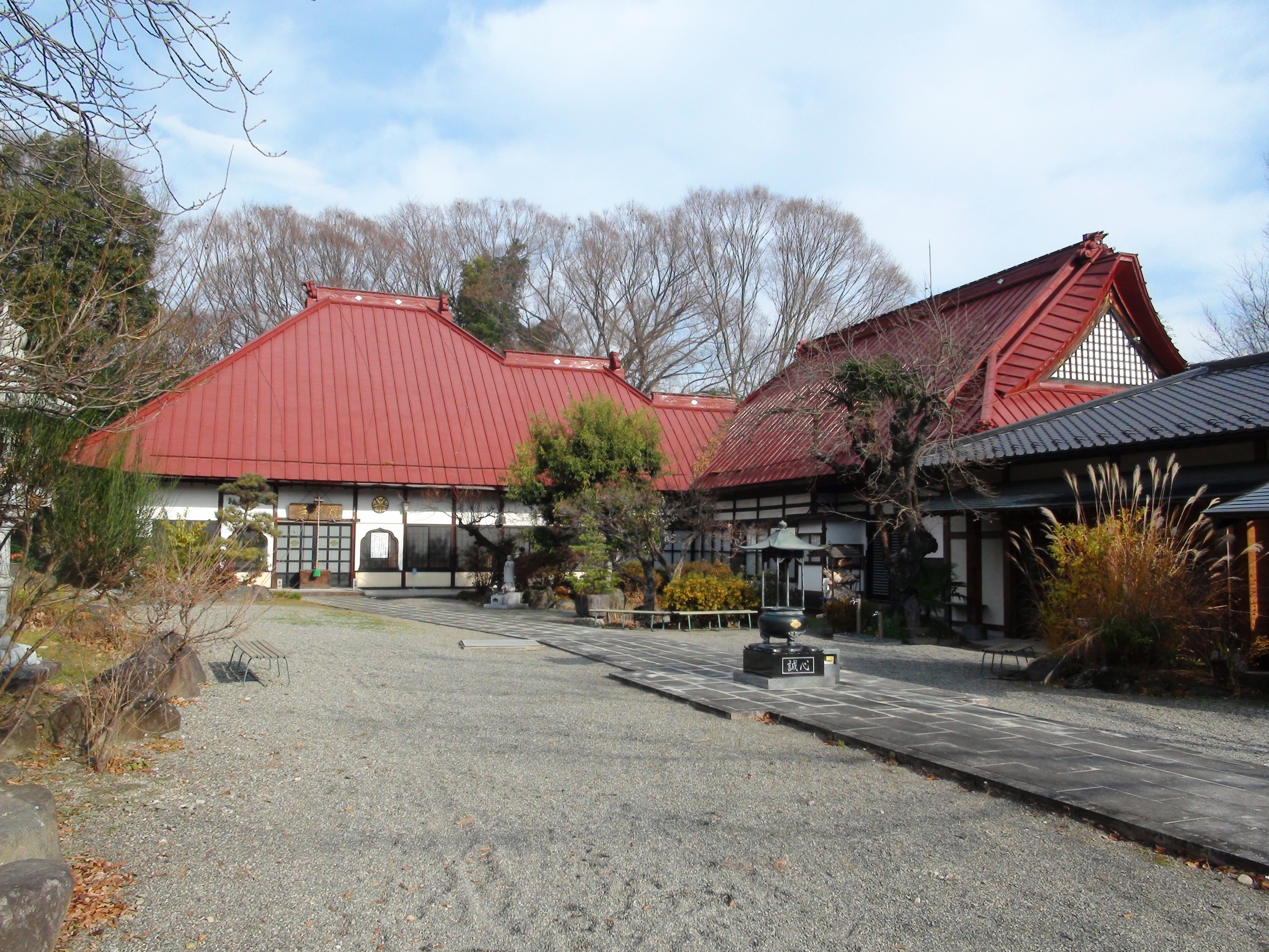 Ganjoji Temple Nirasaki city